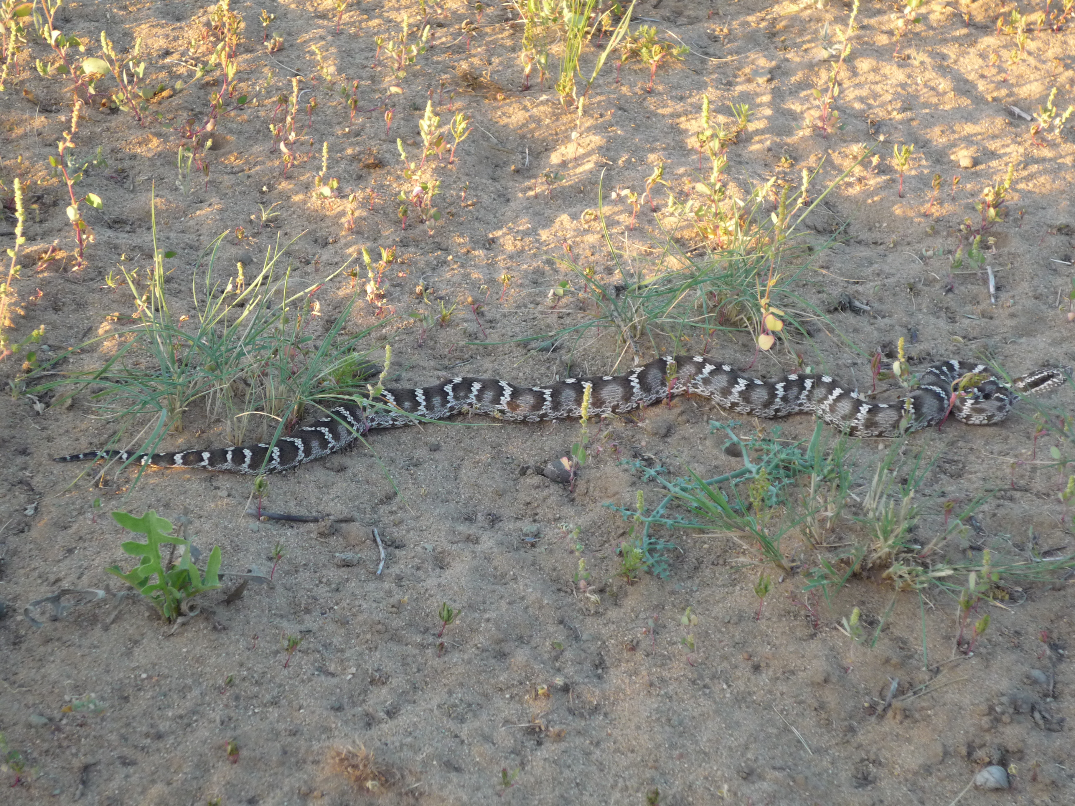 Gloydius halys in Bayan-Onjuul sum, Tov province, Mongolia